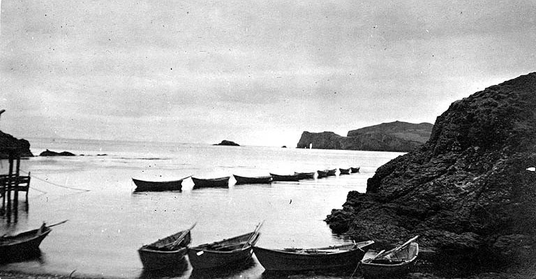 On verso of image: Unga In Folder 37 Subjects (LCTGM): Fishing boats--Alaska--Unga